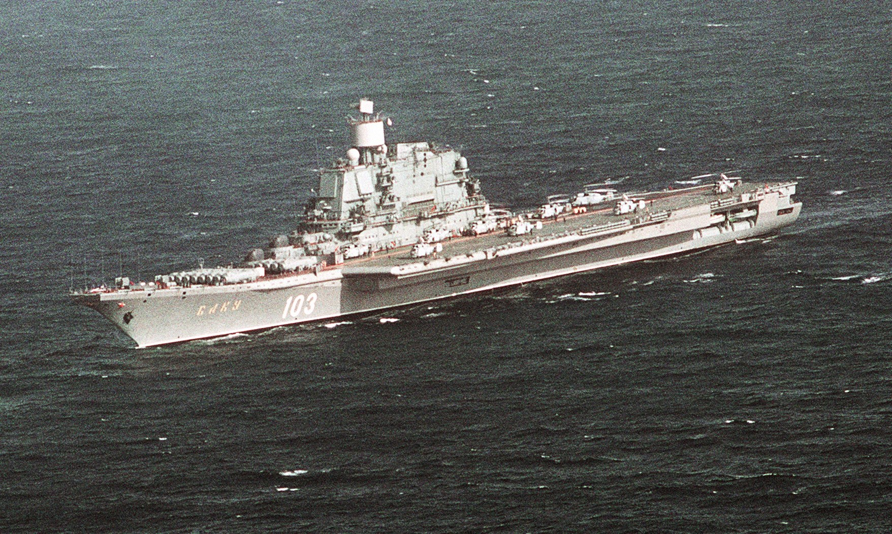 A port bow view of the Soviet Kiev class VSTOL aircraft carrier BAKU (CVHG 103) underway.